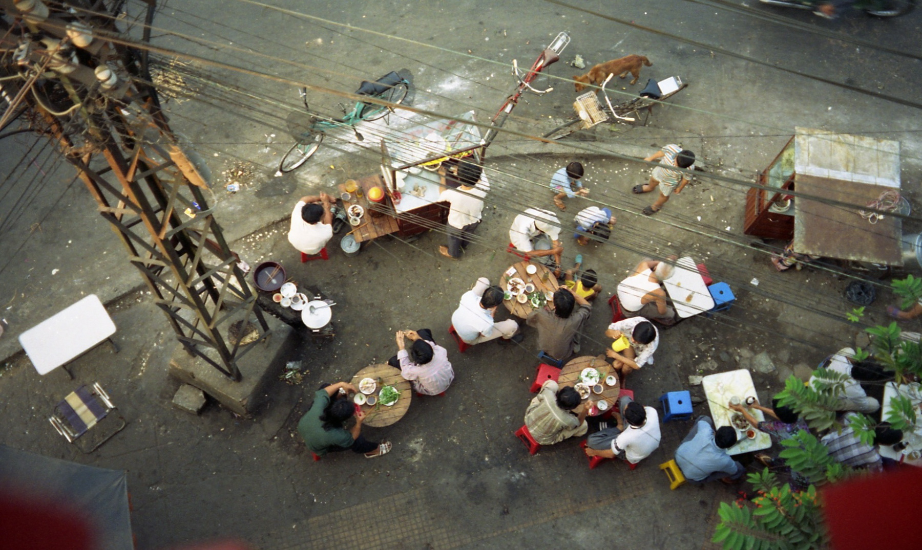 Taken from the window of my hotel in Saigon in February,1994.